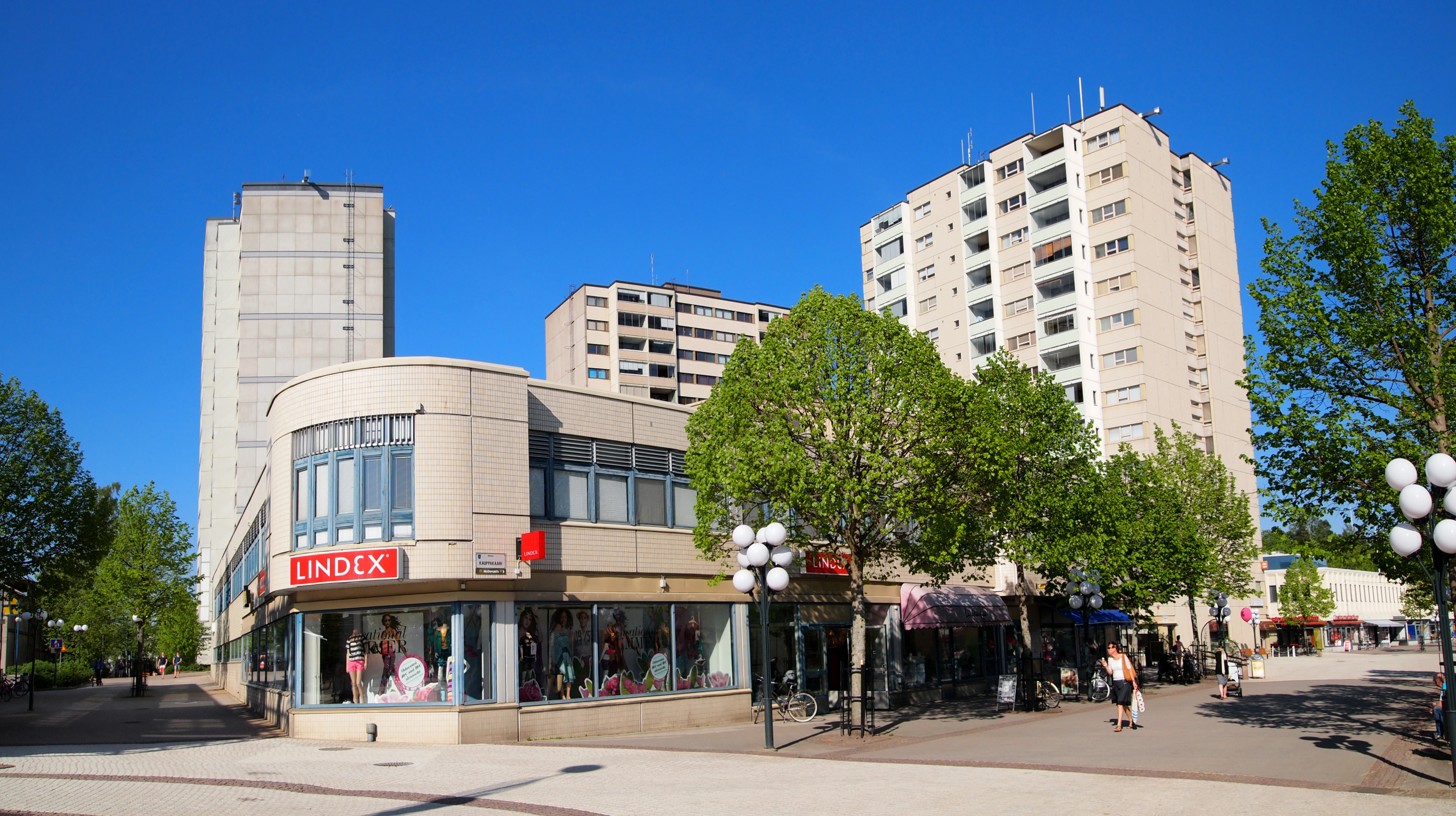 View in Kerava between the streets Kauppakaari and Oppipojankuja. This photograph was taken with a Olympus E-PL1.